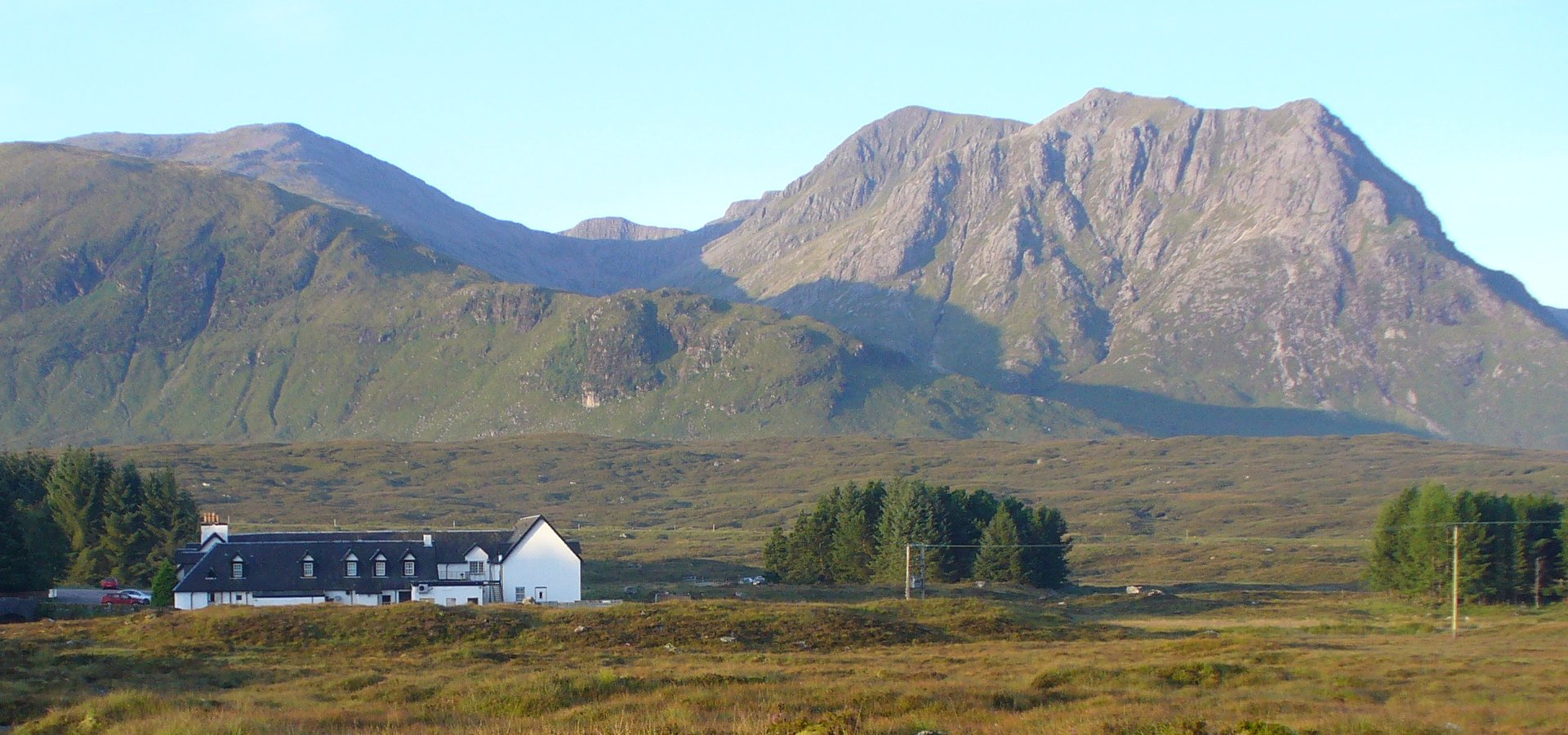 The Kings House Hotel, a remote inn and hotel at the eastern end of Glen Coe at the junction with Glen Etive in the Scottish Highlands.